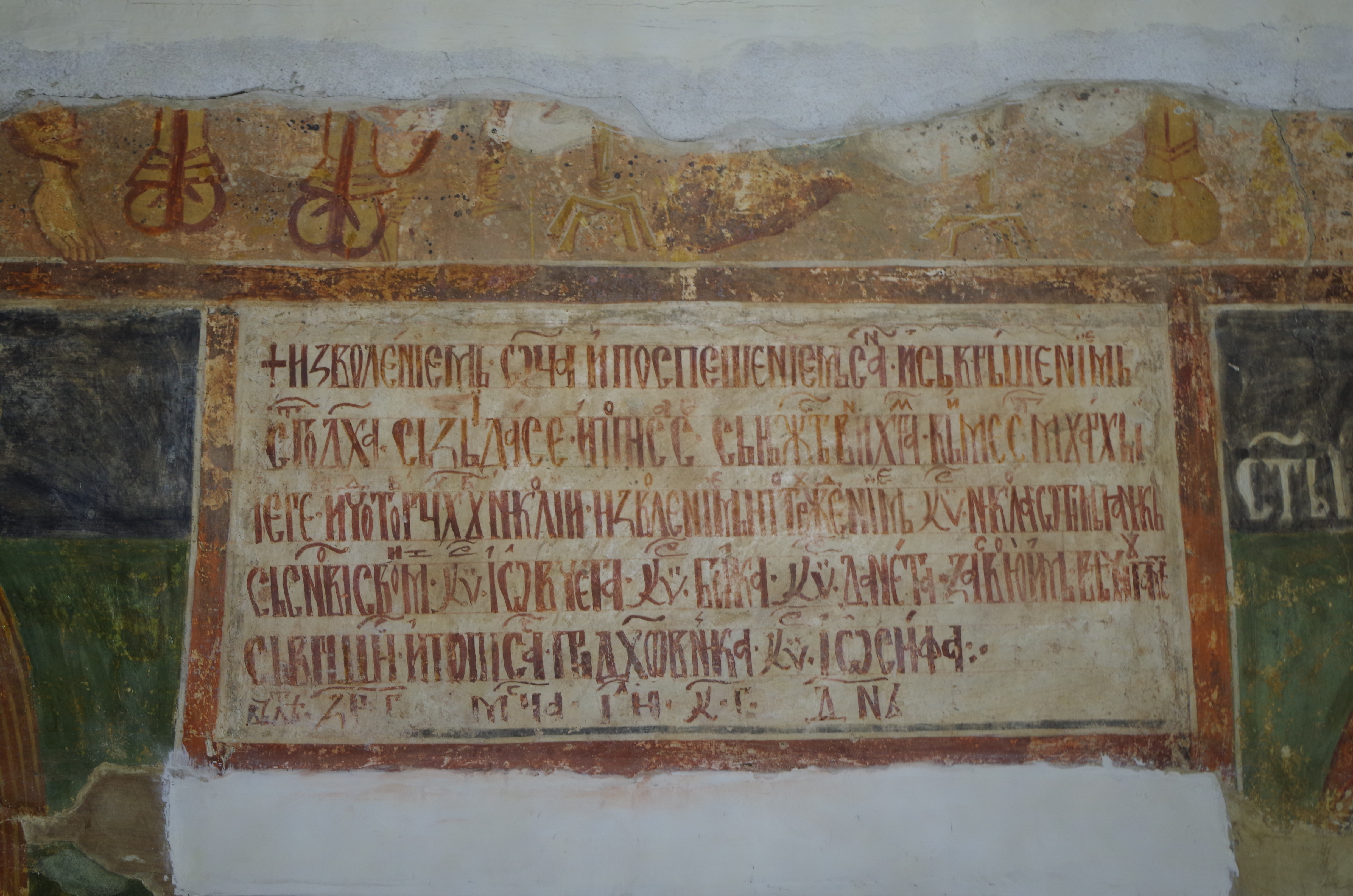 Fresco with inscription in St. Nicholas Church of the Mokliški Monastery